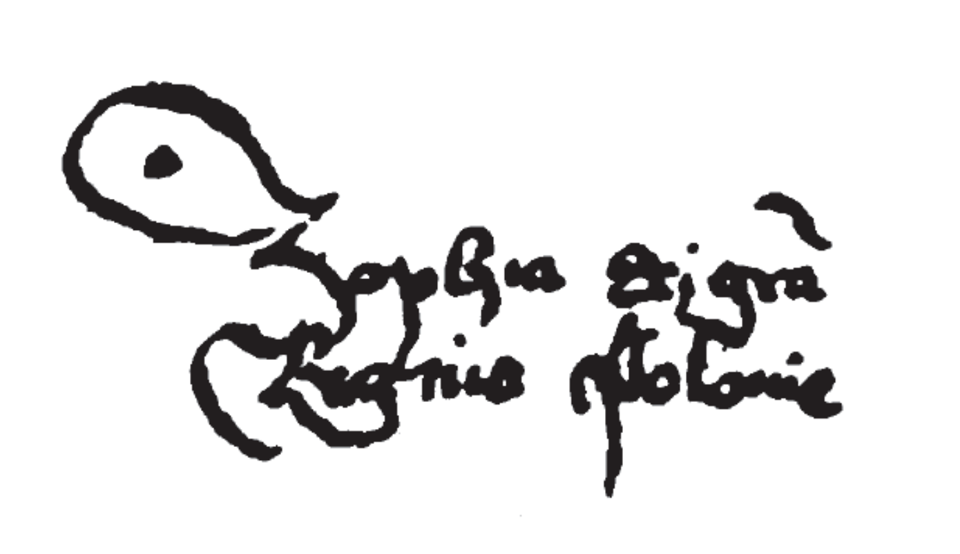 Sophia of Halshany signature as Queen of Poland (A letter to the Town Council of Biecz, 1454): Zophia dei gratia Regina Polonie